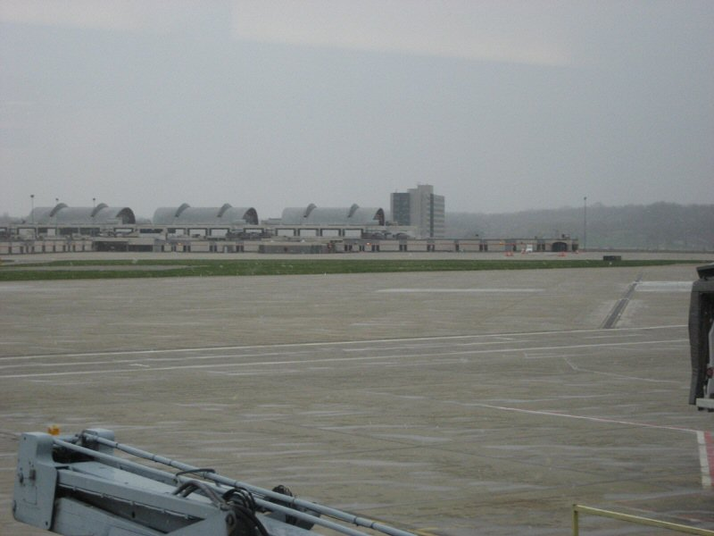 Images of the missing arm of the E gates. Was demolished during the week of April 2, 2007 to make room for a US Airways baggage handling facility.